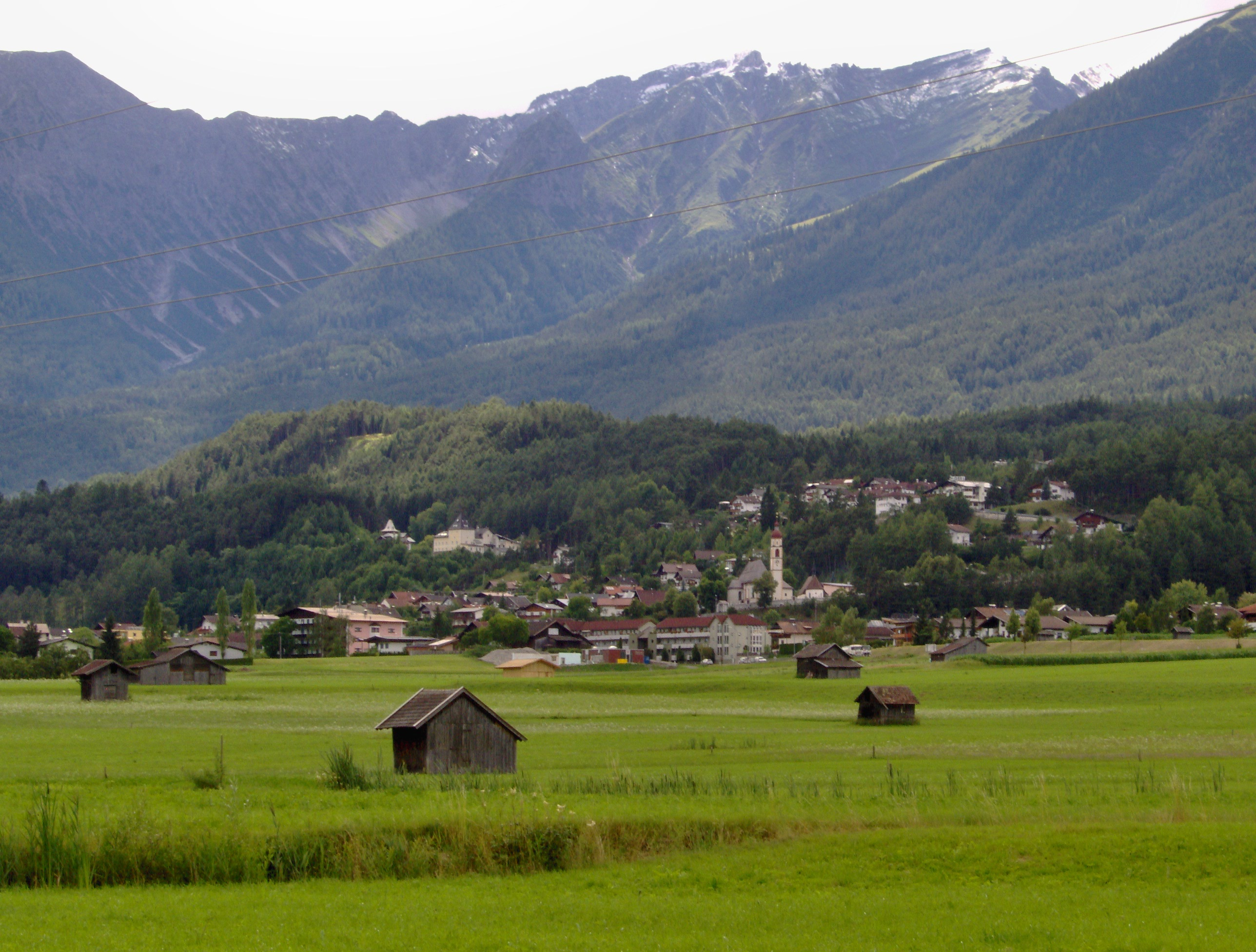 View on the village of Tarrenz, Tyrol, Austria